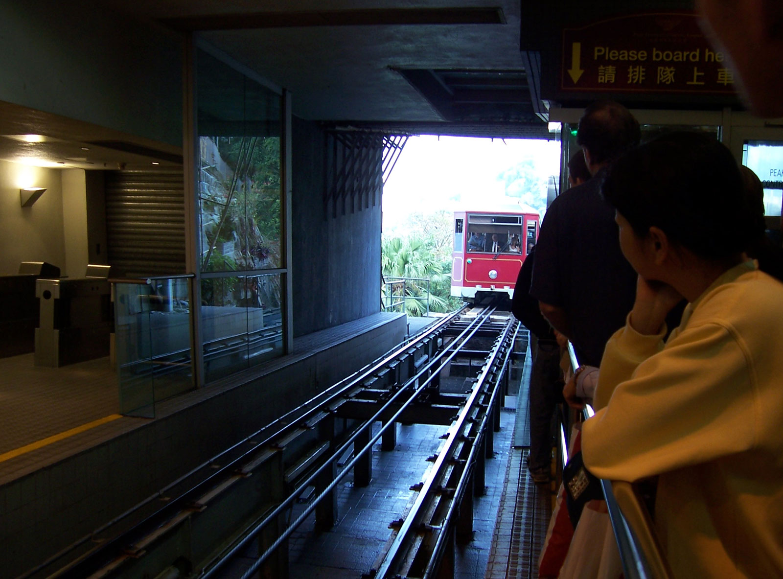 A Peak Tram arriving at the station at Victoria Peak. Taken by Enoch Lau on 29 December 2005. As a courtesy, please let me know if you alter this image or this image description page. Original filename was 100_0824.JPG.